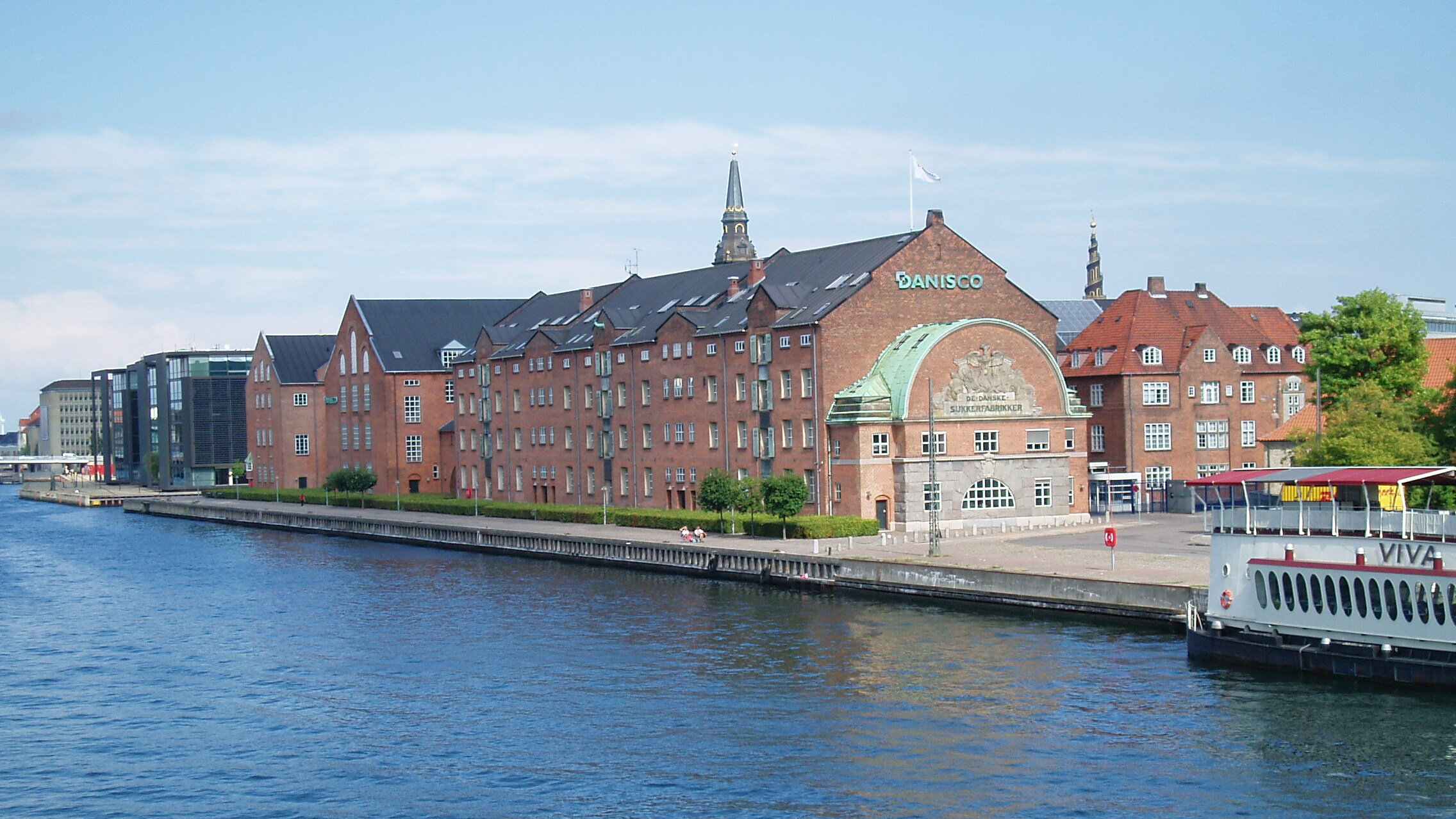 Danisco headquartes in Copenhagen. The headquarter is photgraphed from Langebro crossing Copenhagen Port. Knippelsbro and the Ministry of Foreign Affairs can be seen further out.